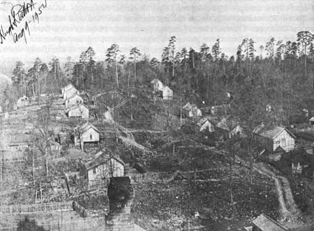 Missouri Mining and Lumber Co houses in Grandin, Missouri around 1910